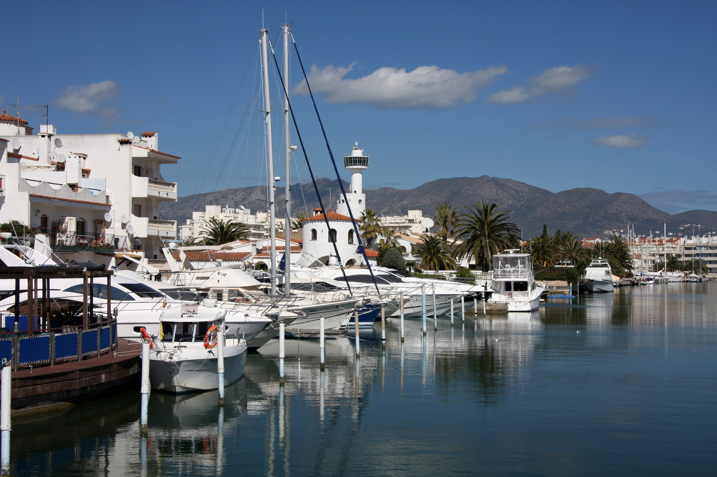 Empuriabrava